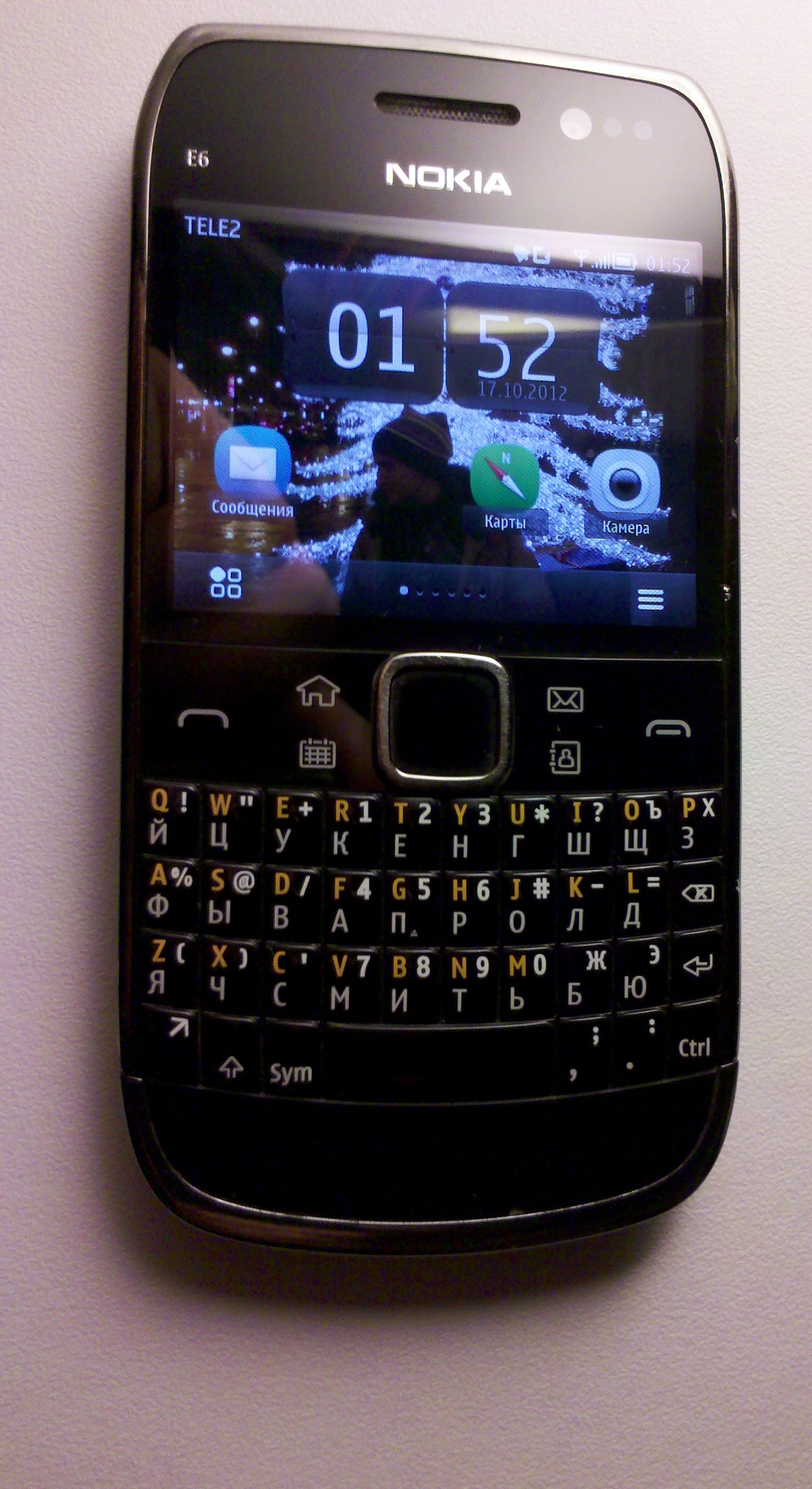 Nokia E6